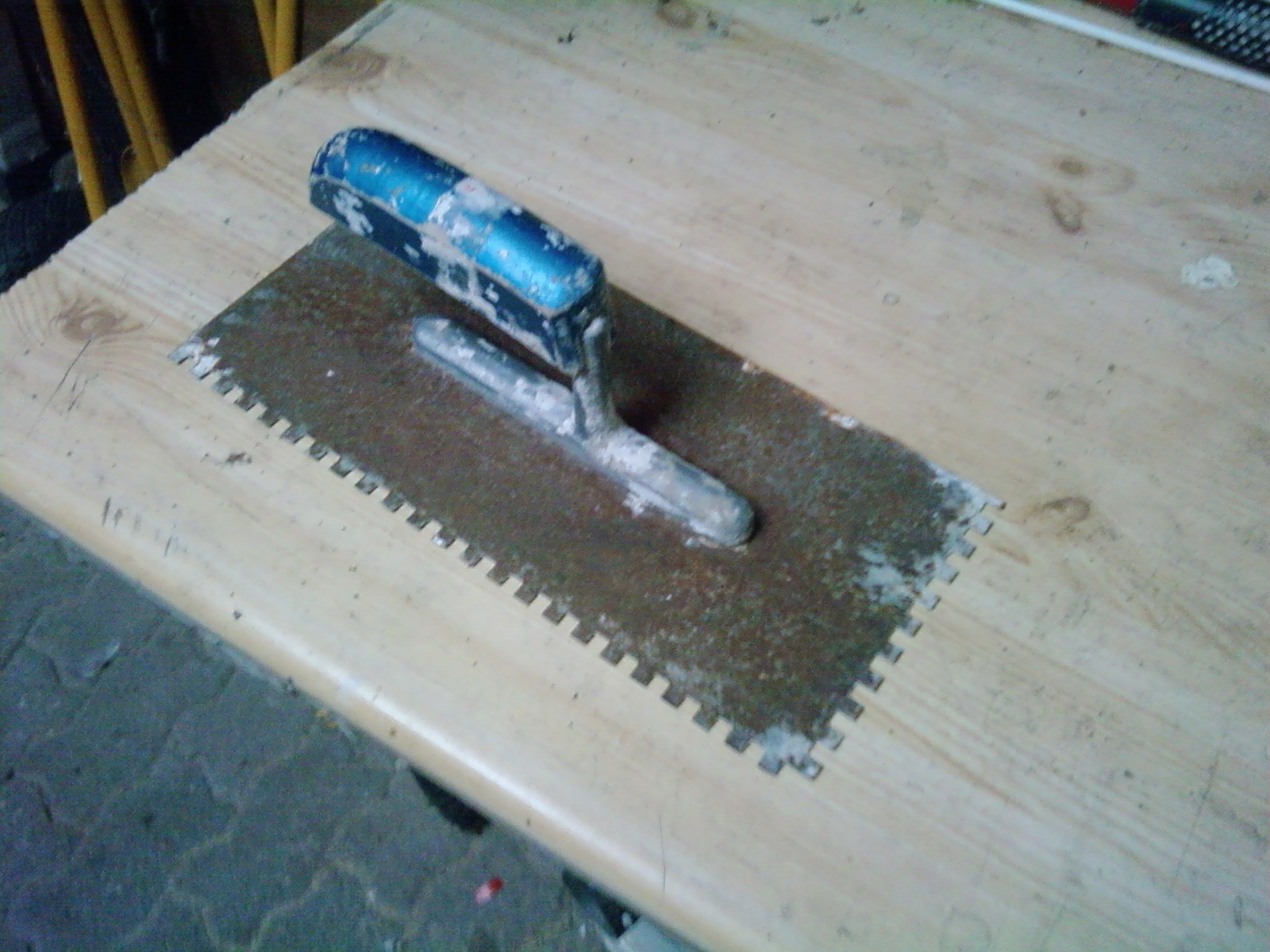 Adhesive trowel.